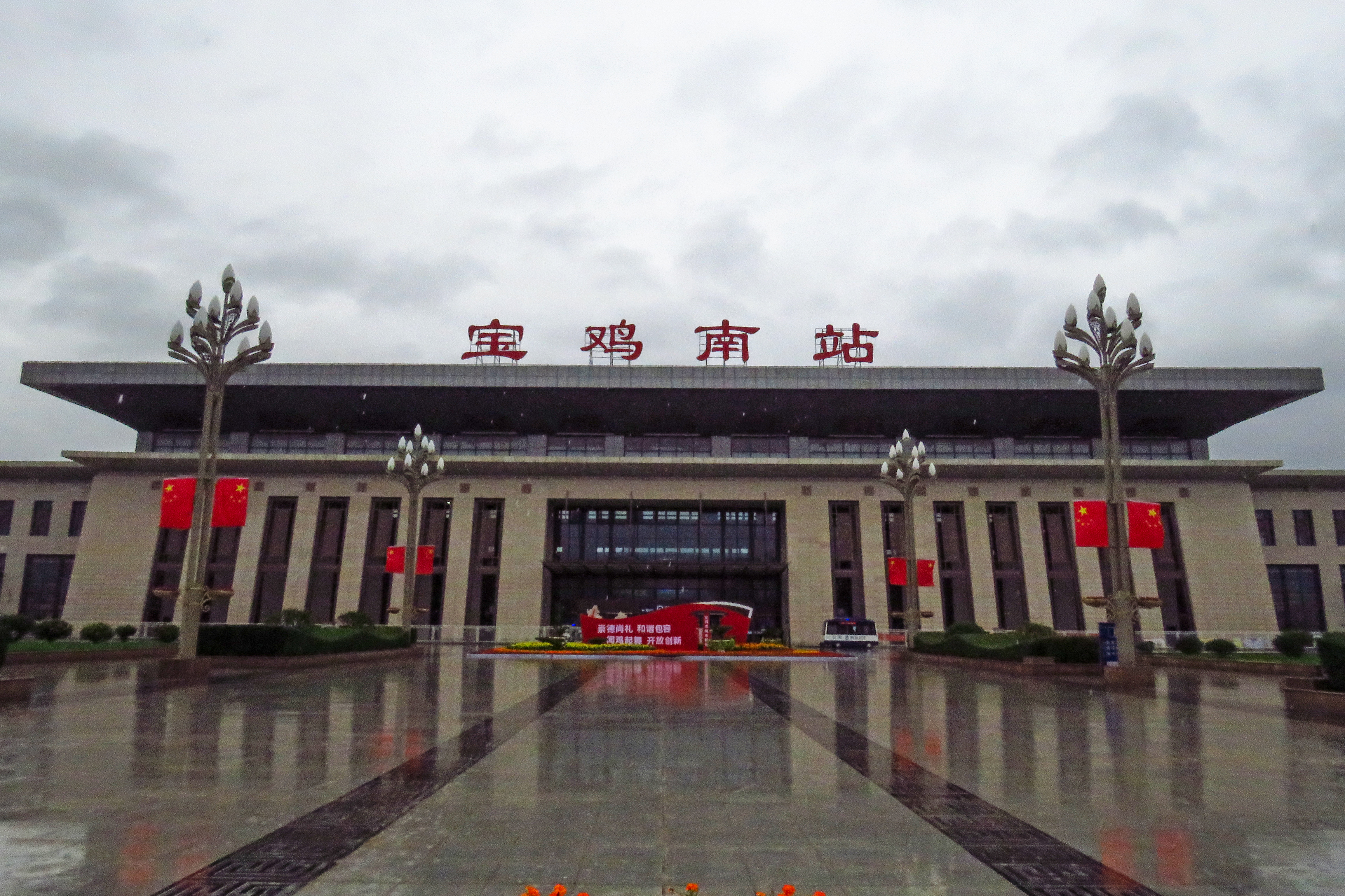 With "Spirit of Baoji" slogan visible, including "practicing sword at rooster's crow" (闻鸡起舞), an idiom derived from the story of Zu Ti and Liu Kun in the 290s.